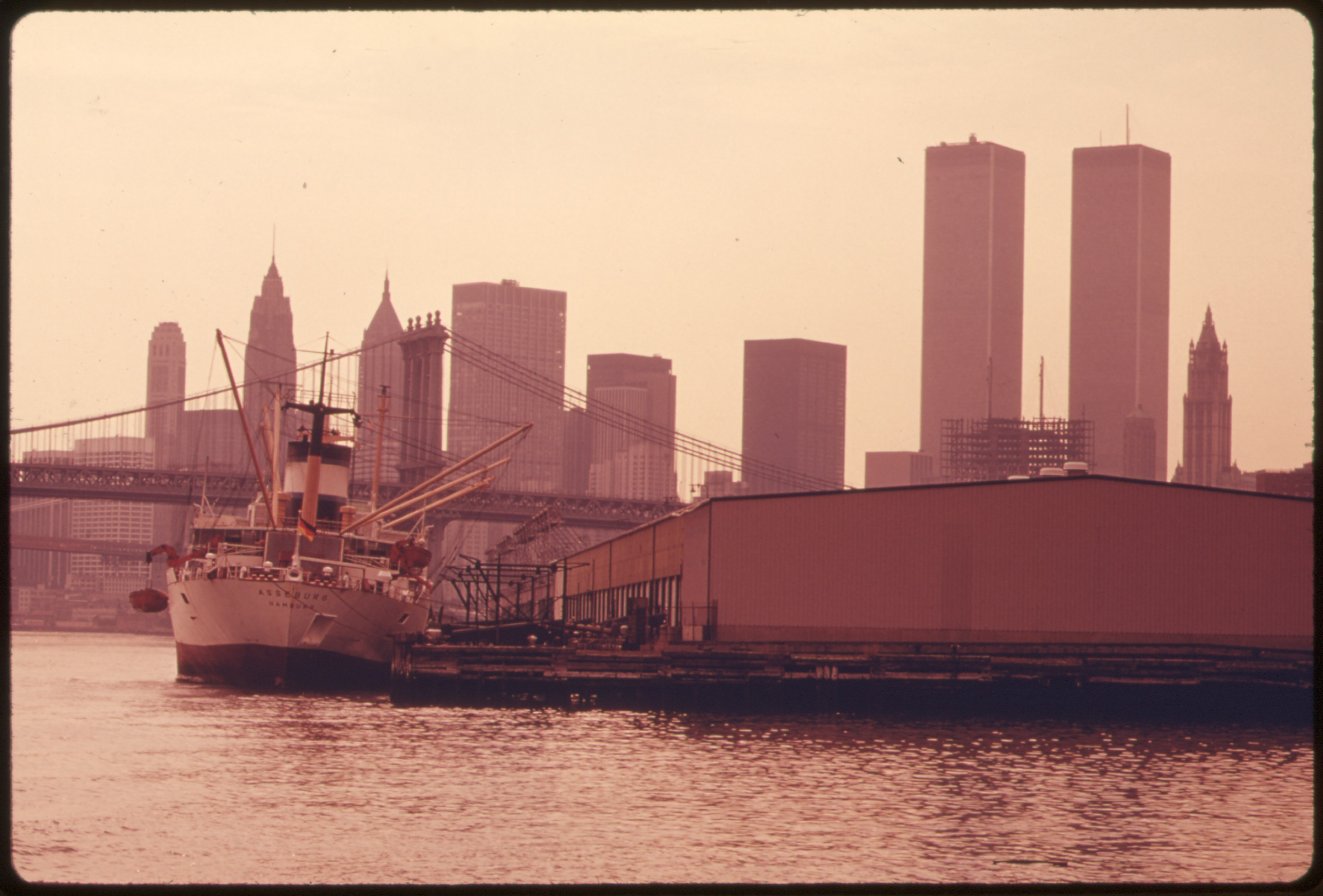 General notes: Title is in error; nothing of Brooklyn is shown. This is East River Pier 42 Manhattan, with other Manhattan structures in background.